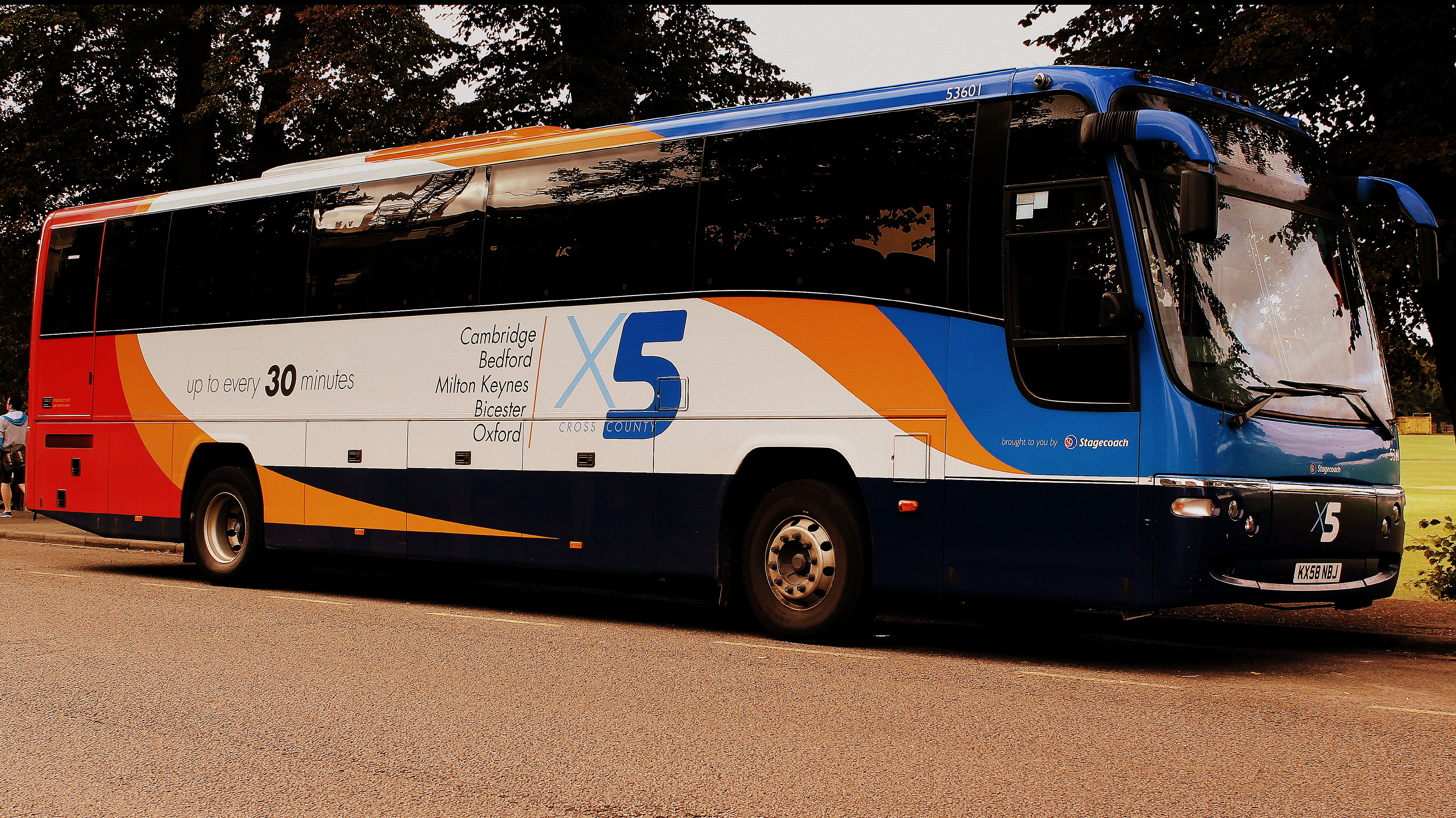 A Stagecoach in Bedford coach on route X5 at Parkside, Cambridge. It is a Volvo B9R with a Plaxton Panther body, fleet number 53601, registration mark KX58 NBJ.